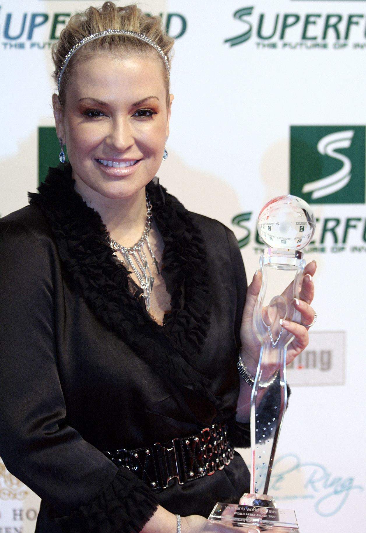 Singer Anastacia at the Women's World Award 2009 (Wiener Stadthalle, Vienna, Austria) where she recieved the 'World Artist Award'.